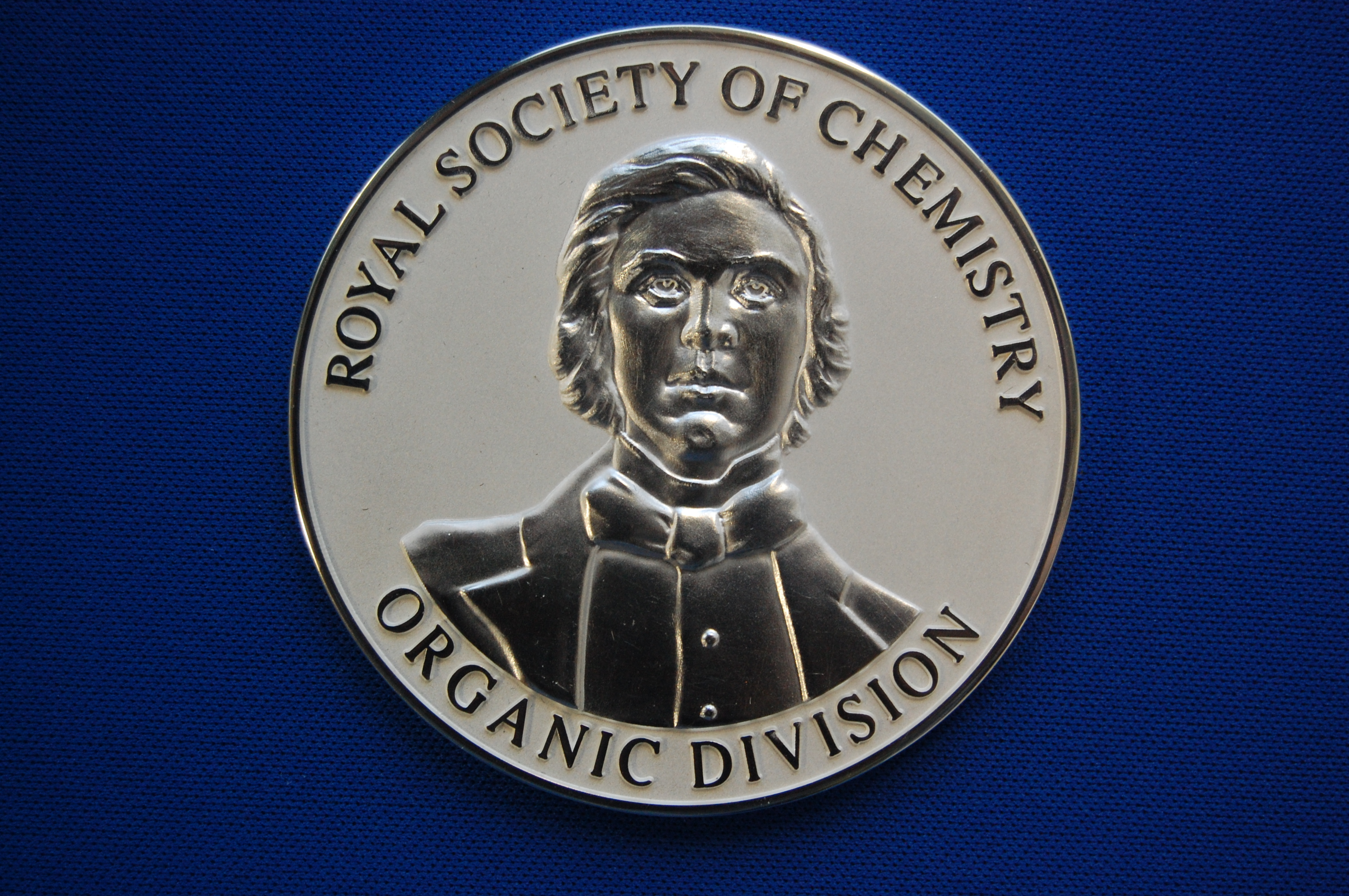 The Royal Society of Chemistry's Hickinbottom Award - 2014 - obverse